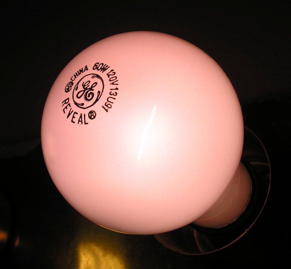 Reveal Light Bulb-Incan.